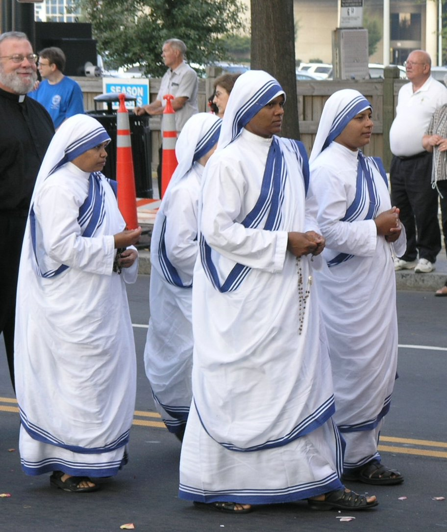 First Annual (September 2005) Southeastern Eucharistic Congress in Charlotte, NC